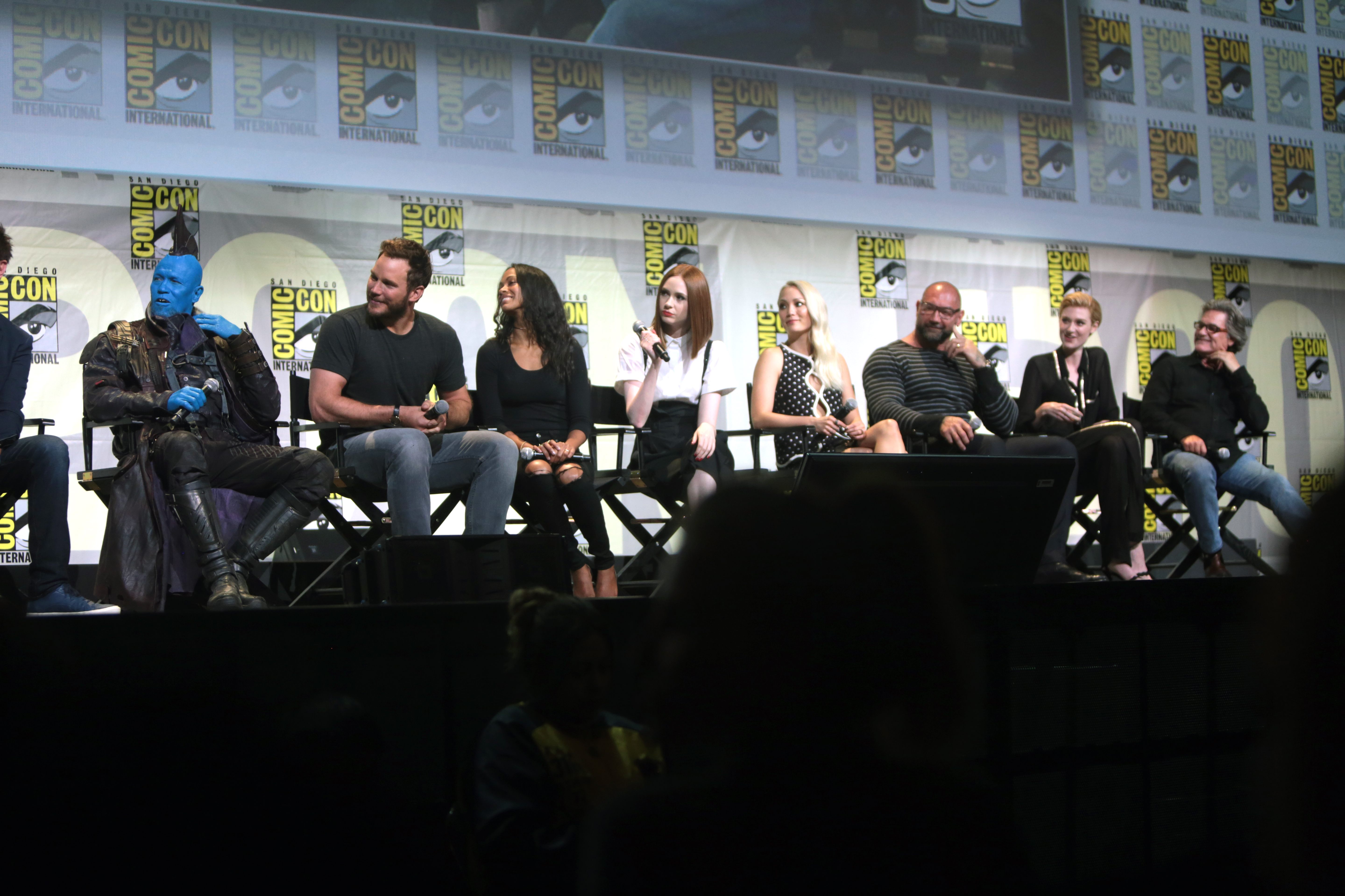 Michael Rooker, Chris Pratt, Zoe Saldana, Karen Gillan, Pom Klementieff, Dave Bautista, Elizabeth Debicki and Kurt Russell speaking at the 2016 San Diego Comic Con International, for Guardians of the Galaxy Vol. 2, at the San Diego Convention Center in San Diego, California.